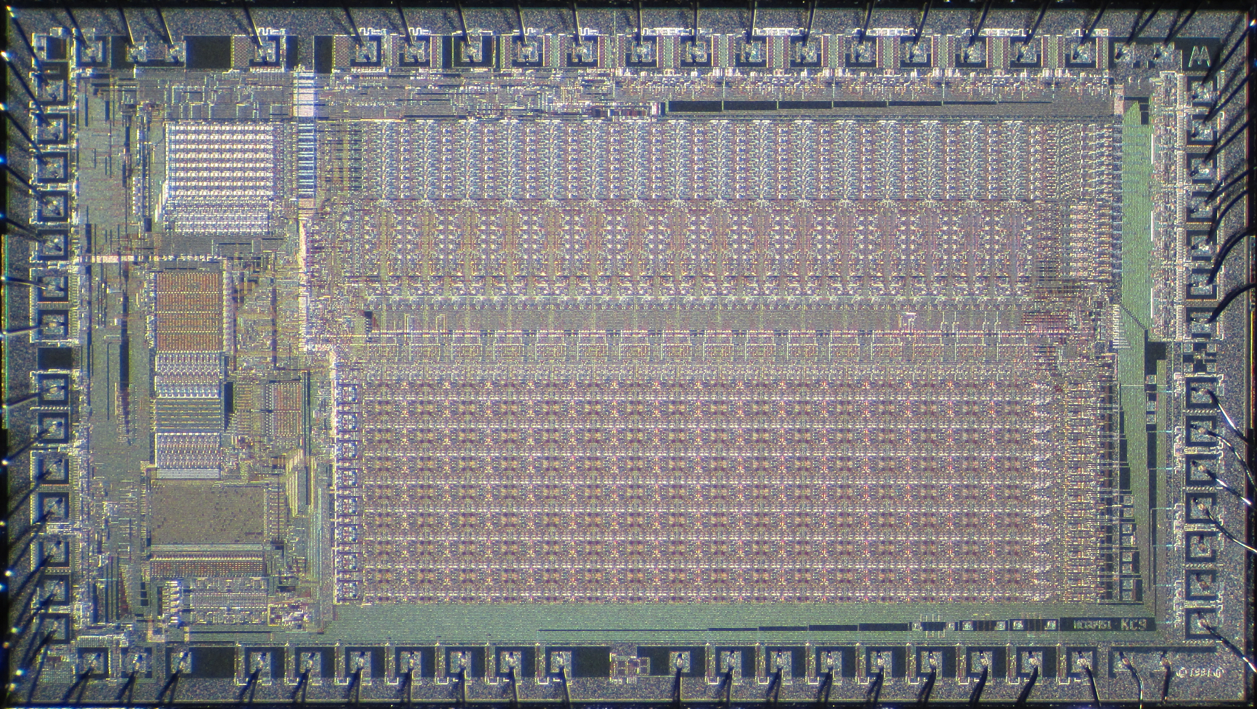 Die shot of Motorola 68451 memory management unit (SC87856L10, 68451L10, KC9 mask).